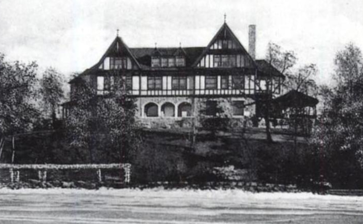 Harrose Hall, Lake Geneva circa 1900. This was the home built by Harry Gordon Selfridge and his wife Rose in about 1895.